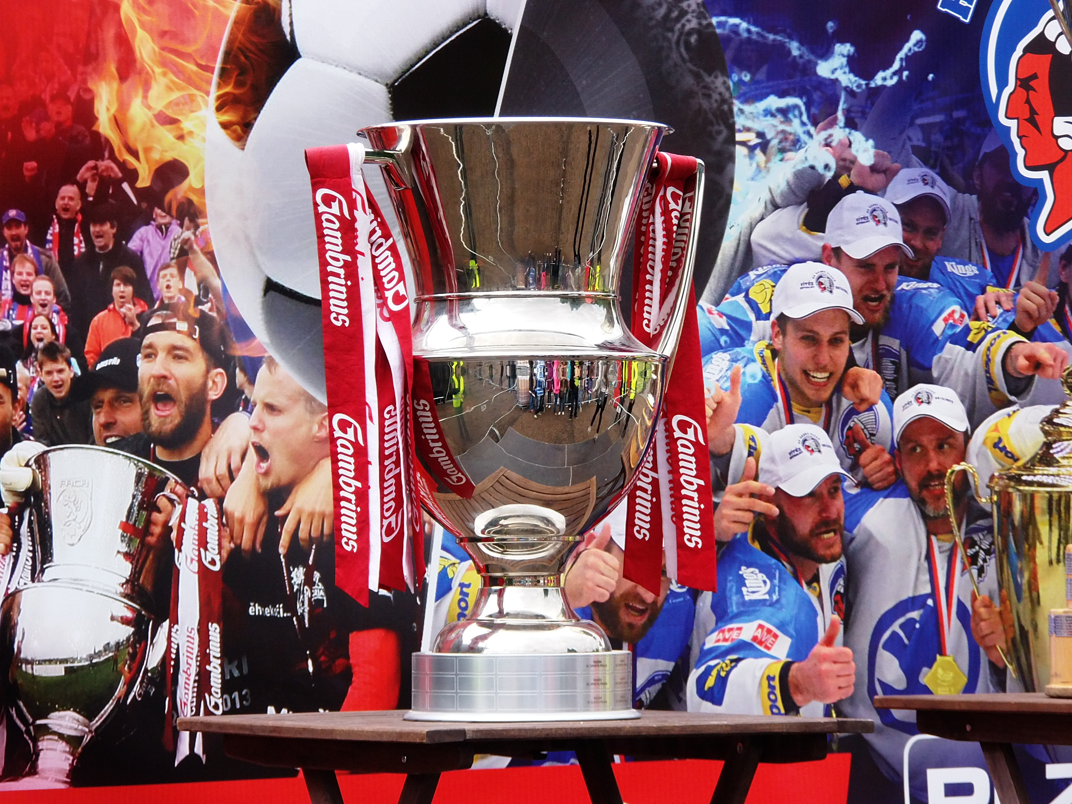 Trophy of Gambrinus liga